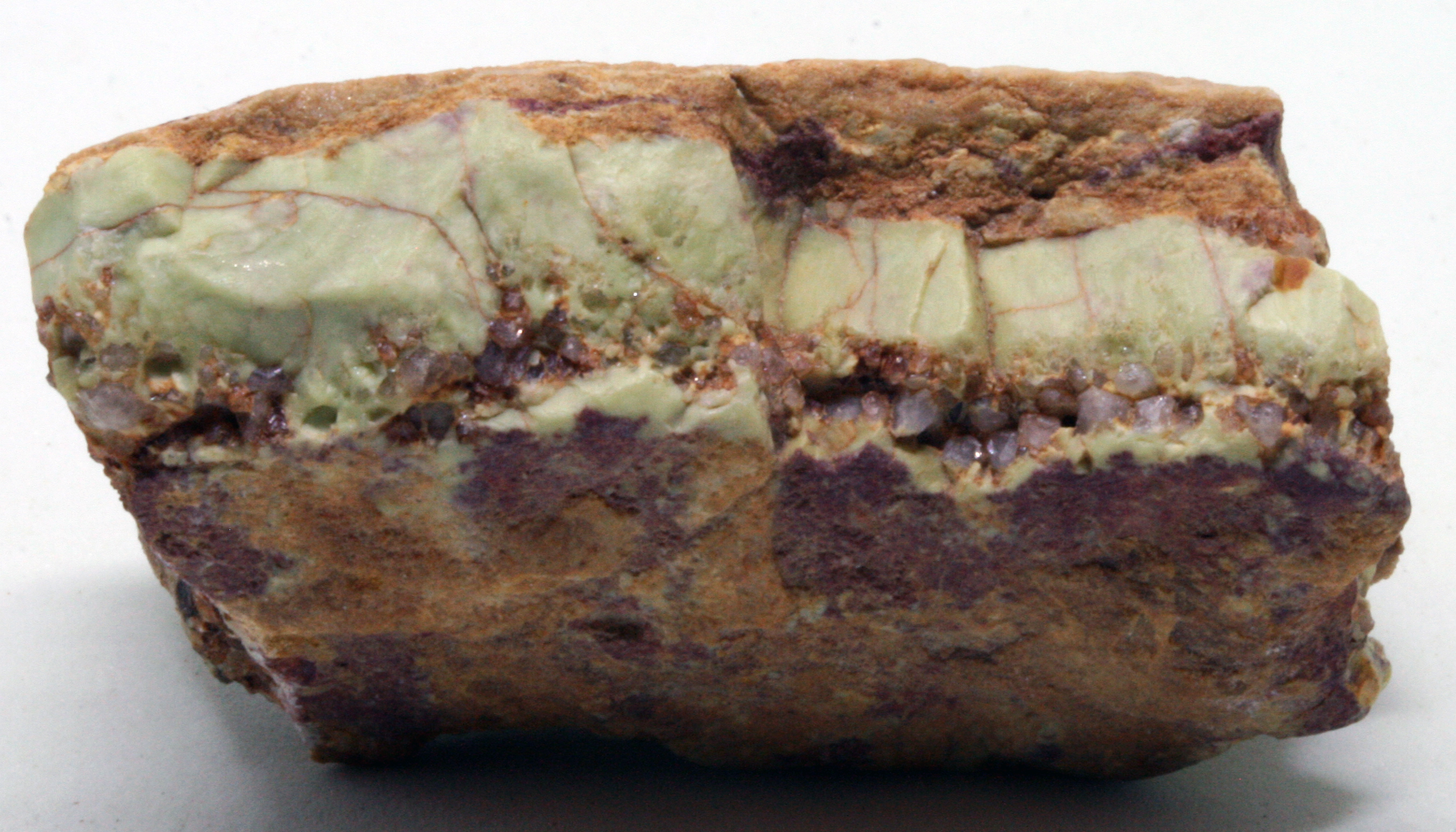 Natroalunite as a vein in quartzite. Castillo hill, Nogueras, Teruel, España